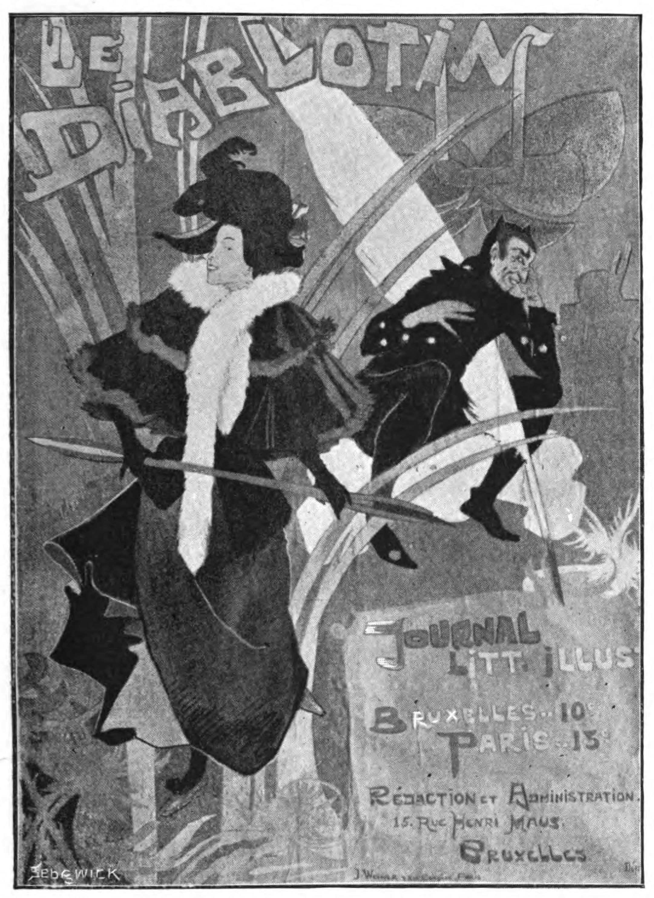 Poster by de Feure for le Diablotin